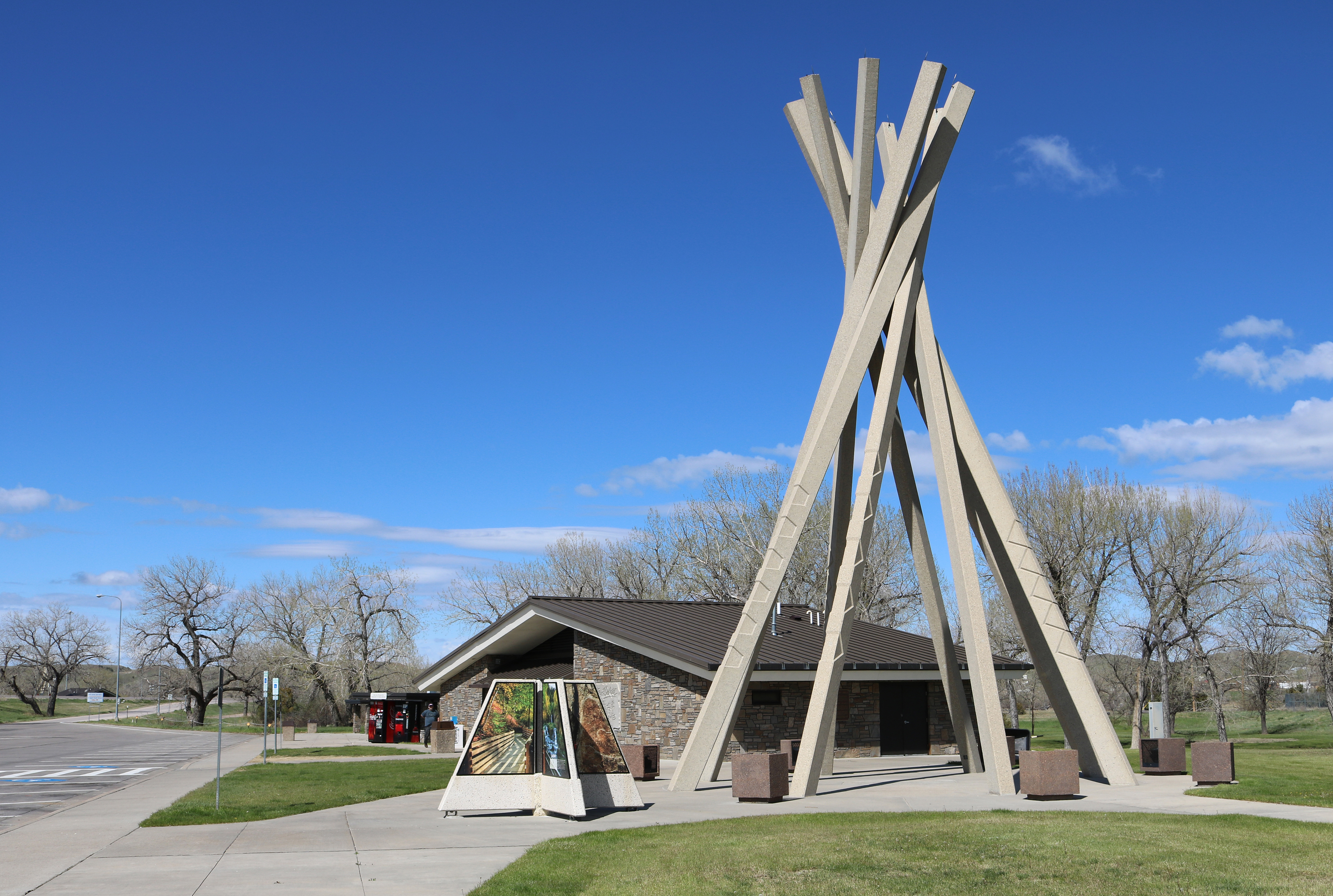 The Wasta Rest Stop Tipi-Westbound, located near Wasta, South Dakota. The Tipi (teepee) is listed on the National Register of Historic Places.